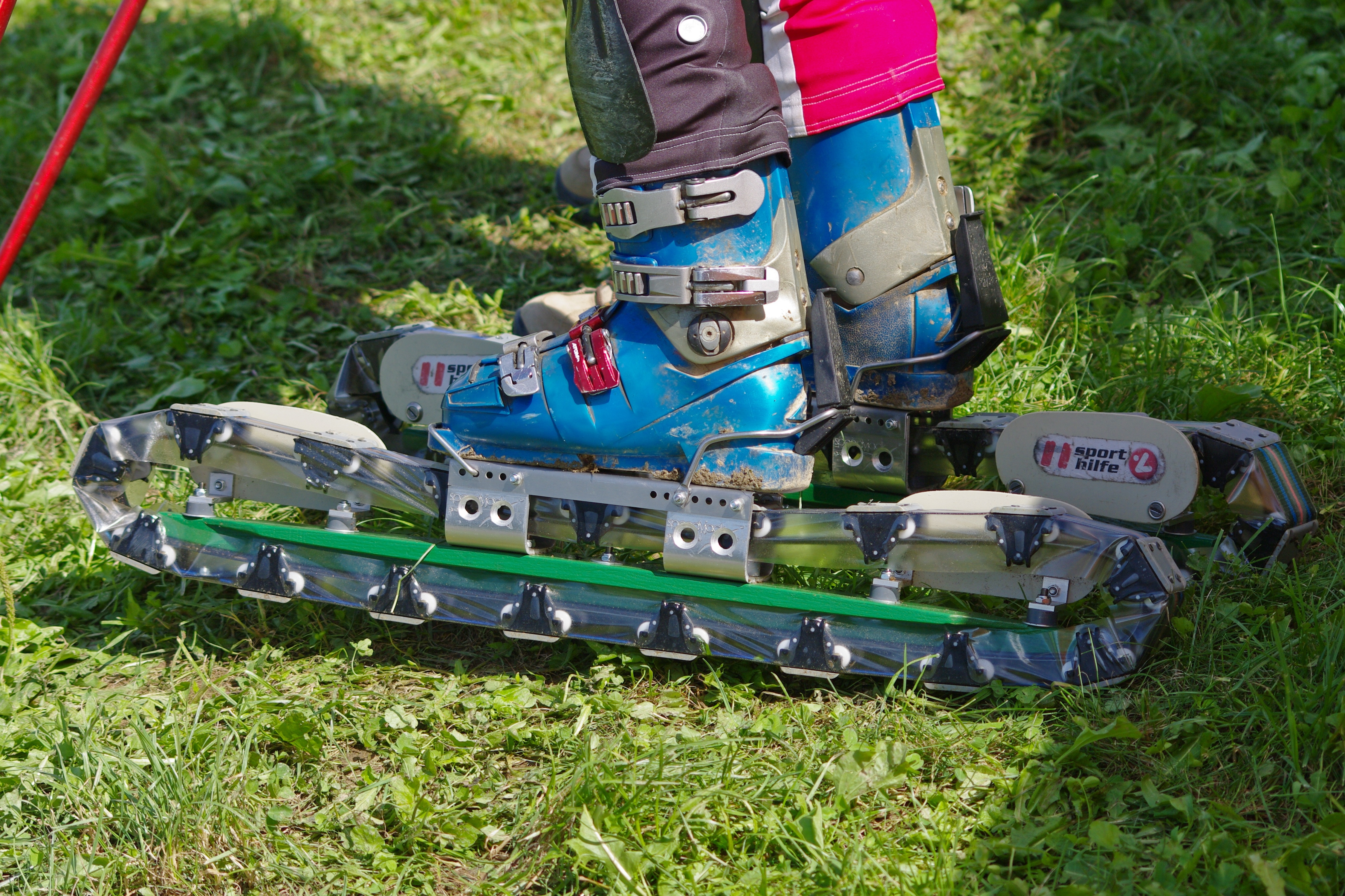 Grass skis and ski boots of the austrian grass skier Ingrid Hirschhofer.